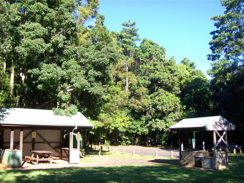 Victoria Park Nature Reserve, near Alstonville with sheds and parking area